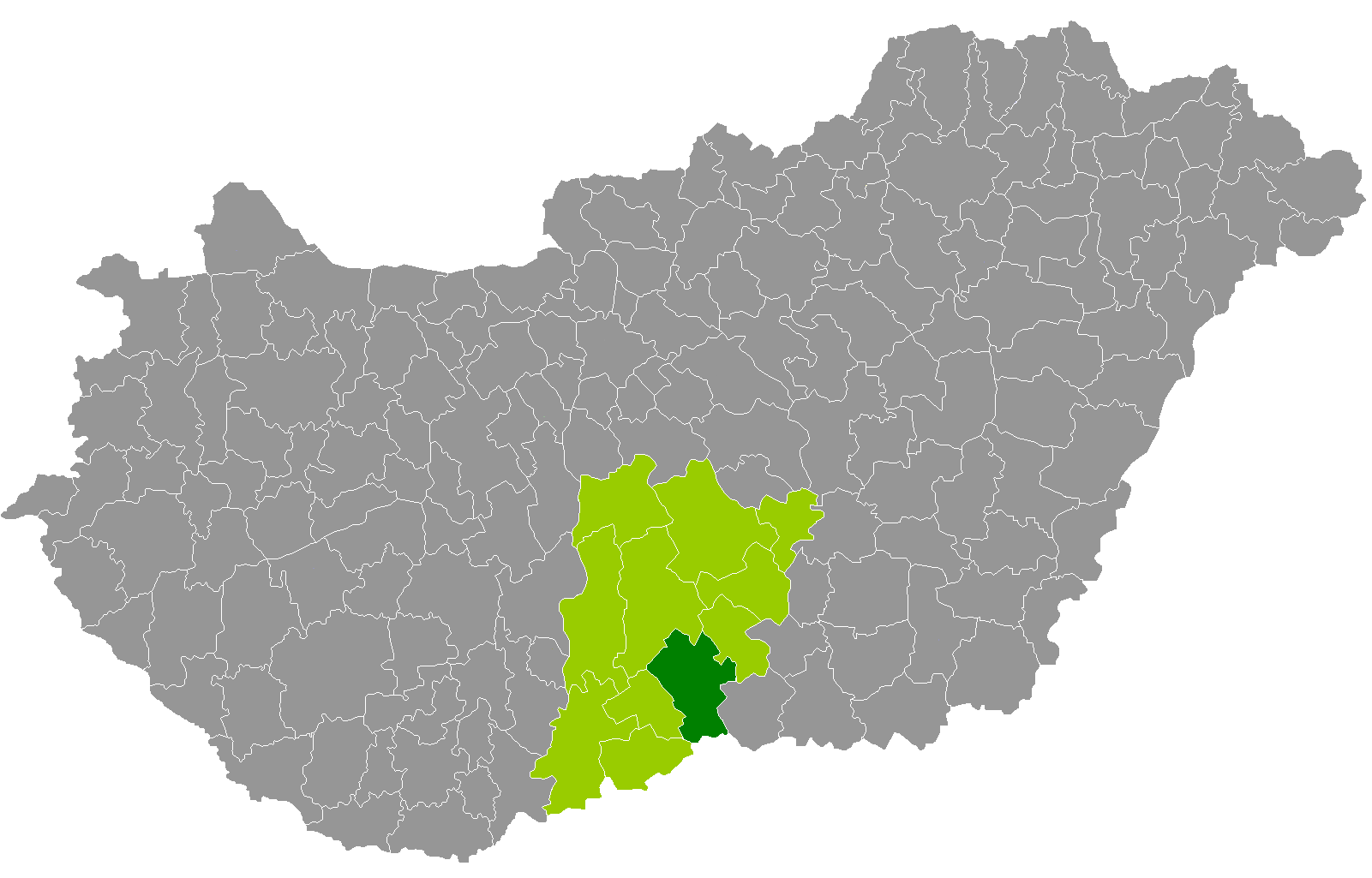 Location of Kiskunhalas District, Bács-Kiskun, Hungary